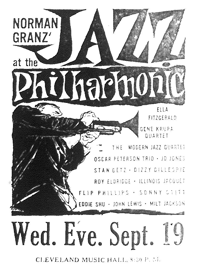 Cleveland Call and Post, September 8, 1956 Pg. 7C